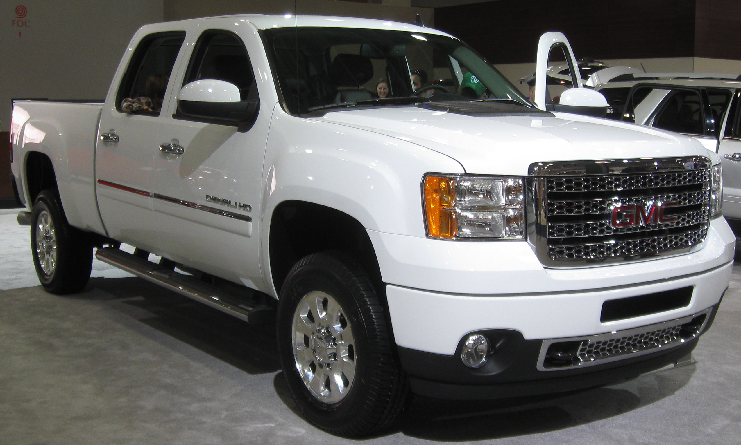 2011 GMC Sierra photographed at the 2011 Washington (D.C.) Auto Show.